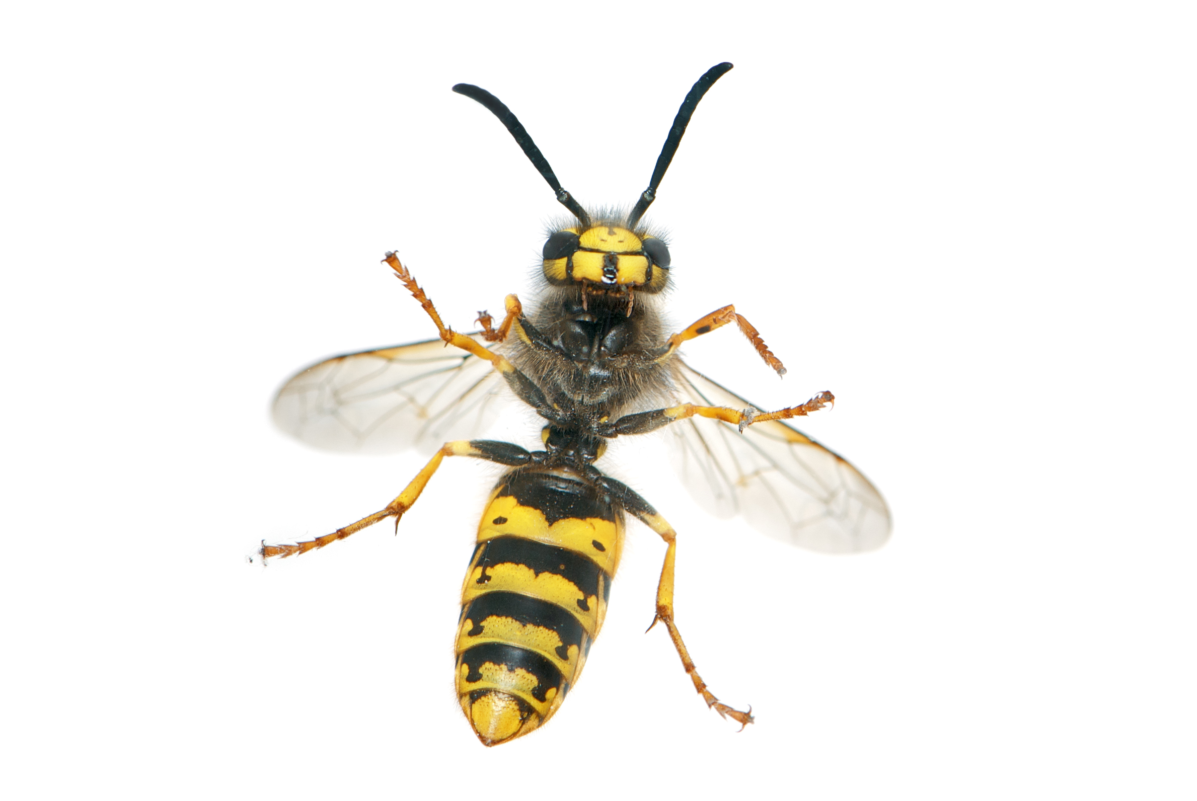 A wasp found in much of Earth's Northern Hemisphere is the German wasp (Vespula germanica). It is native to Europe, temperate Asia and northern Africa. The specimen in the picture is a fully grown worker (female) with a length (head to abdomen) of about 14 mm.